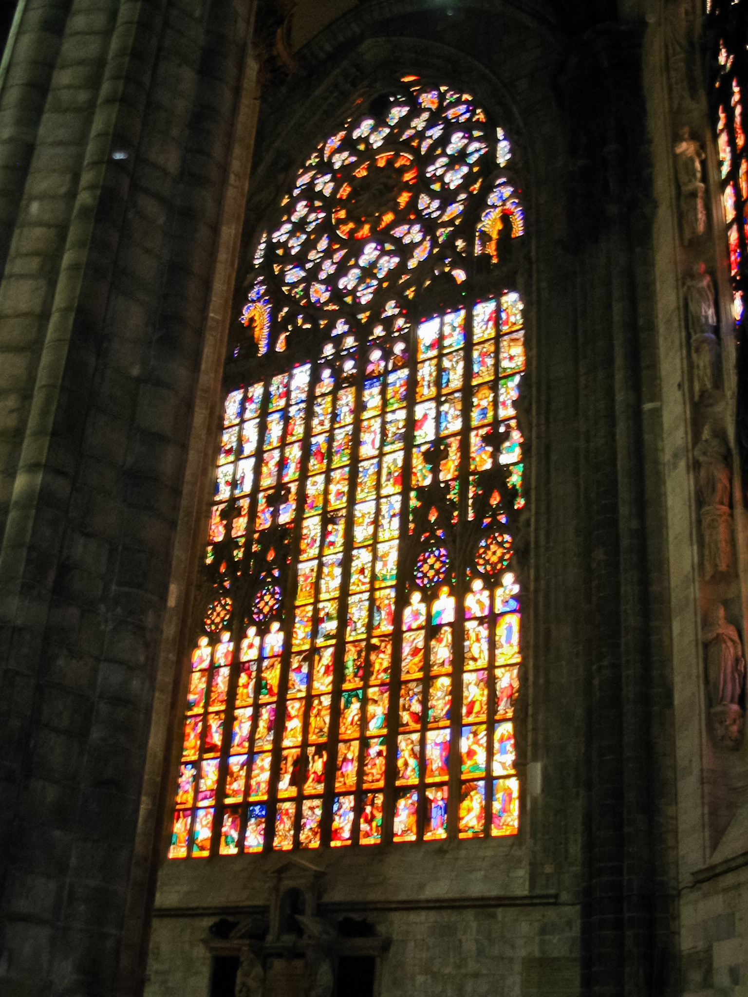 The Duomo (Cathedral) in Milan. Stained glasses.